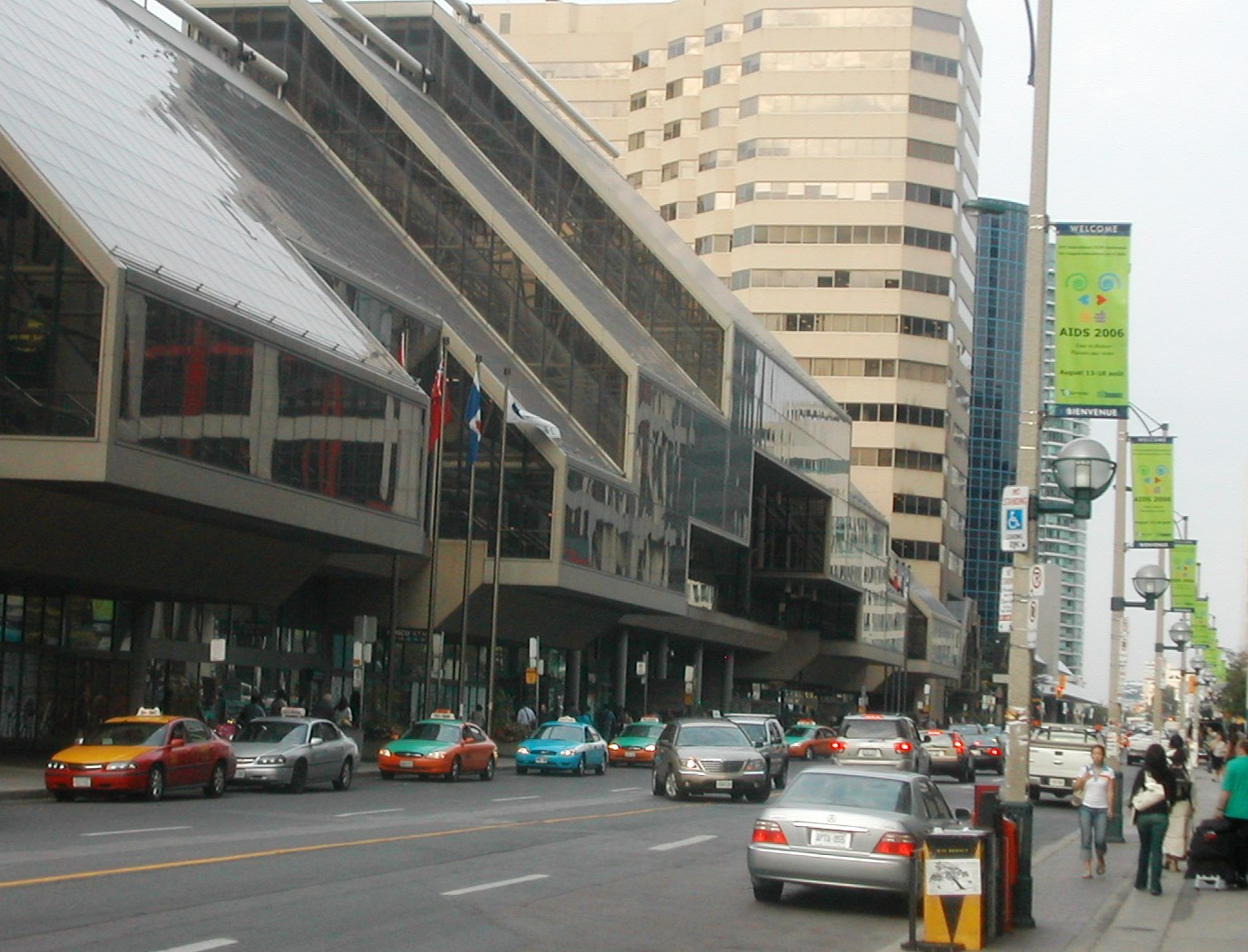 The Metro Toronto Convention Centre on Front Street in Toronto, Ontario during the XVI International AIDS Conference, 2006.